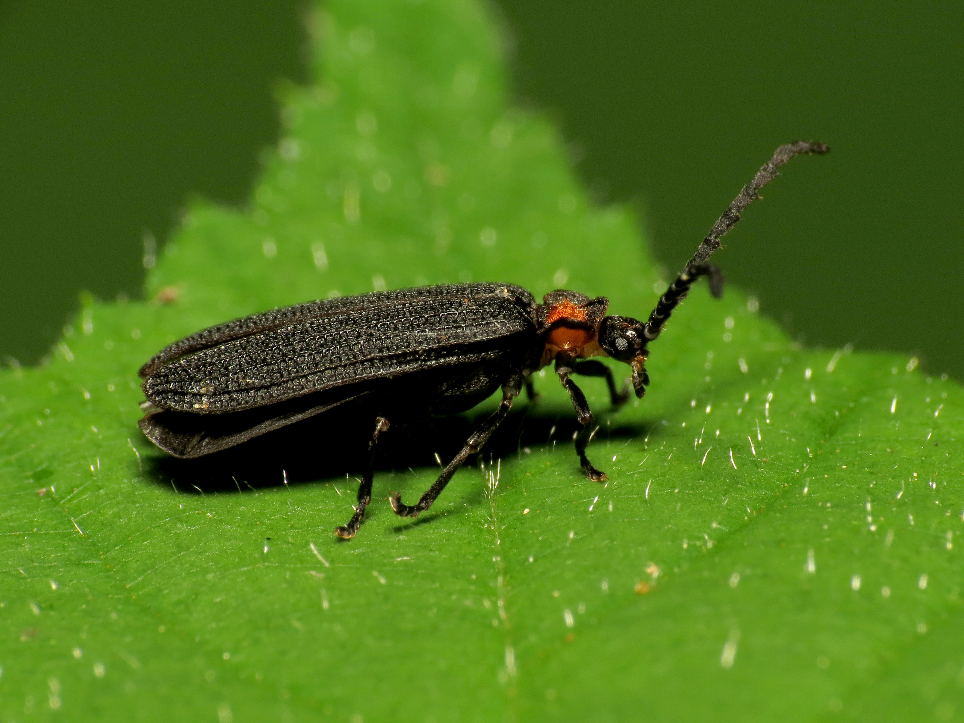 Lopheros fraternus. Rock Creek Park, Washington, DC, USA